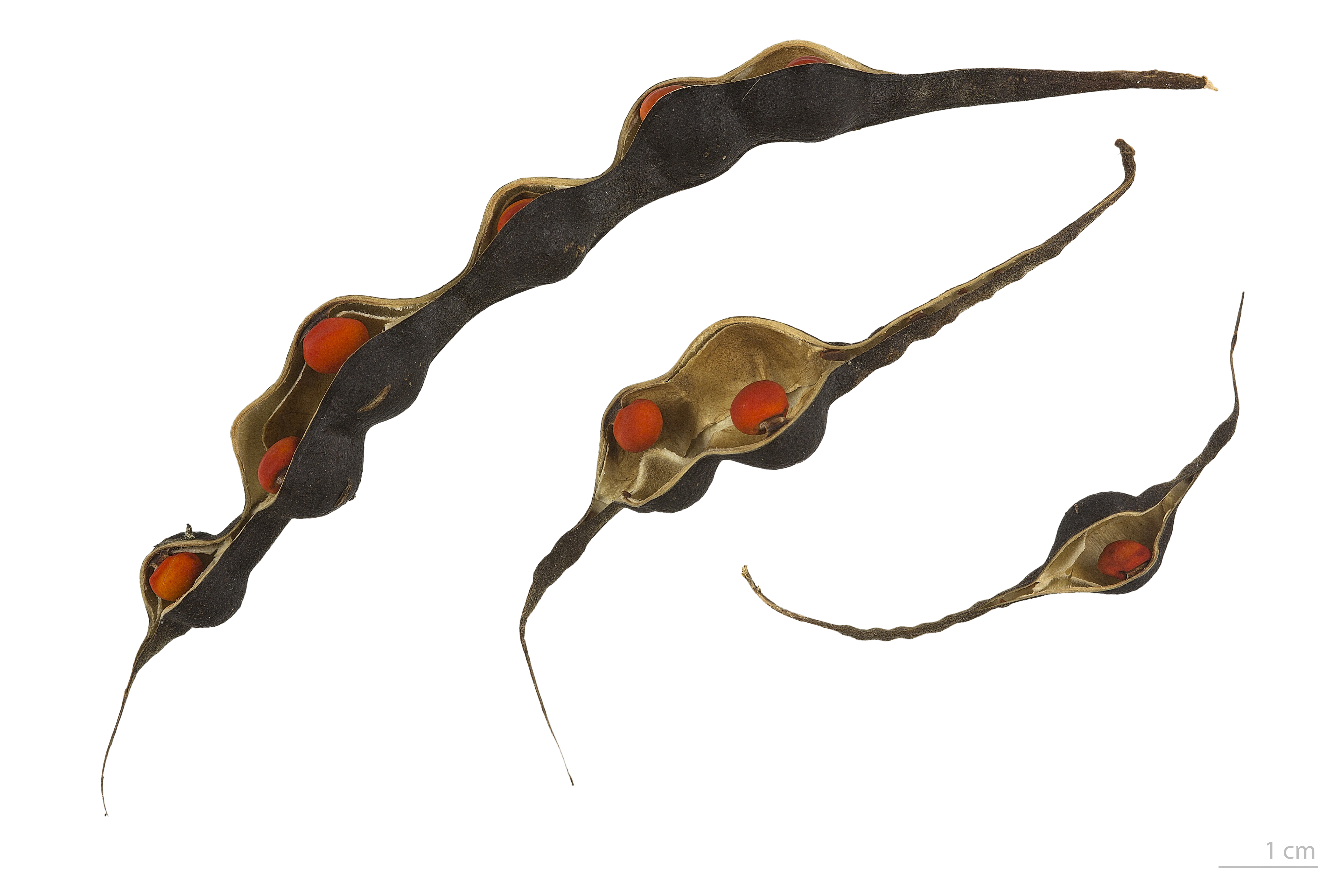 Erythrina humeana, seeds